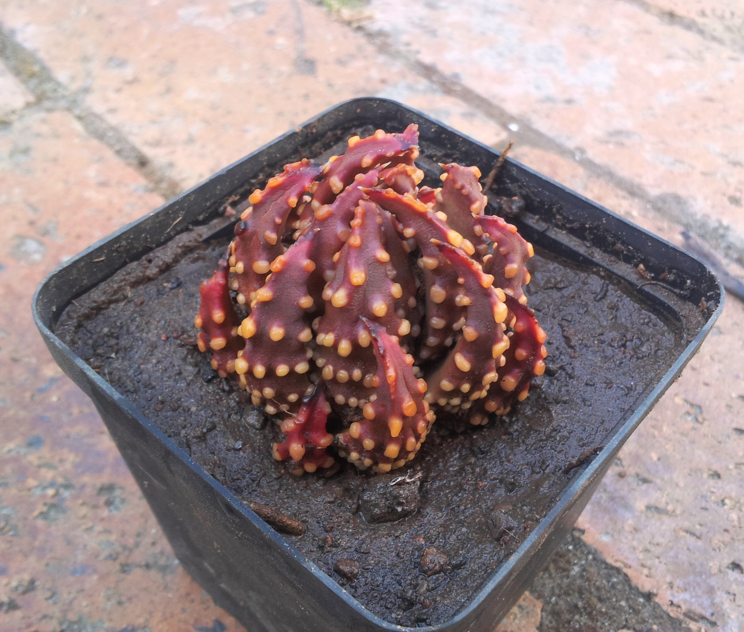 Haworthia pumila in cultivation - South Africa